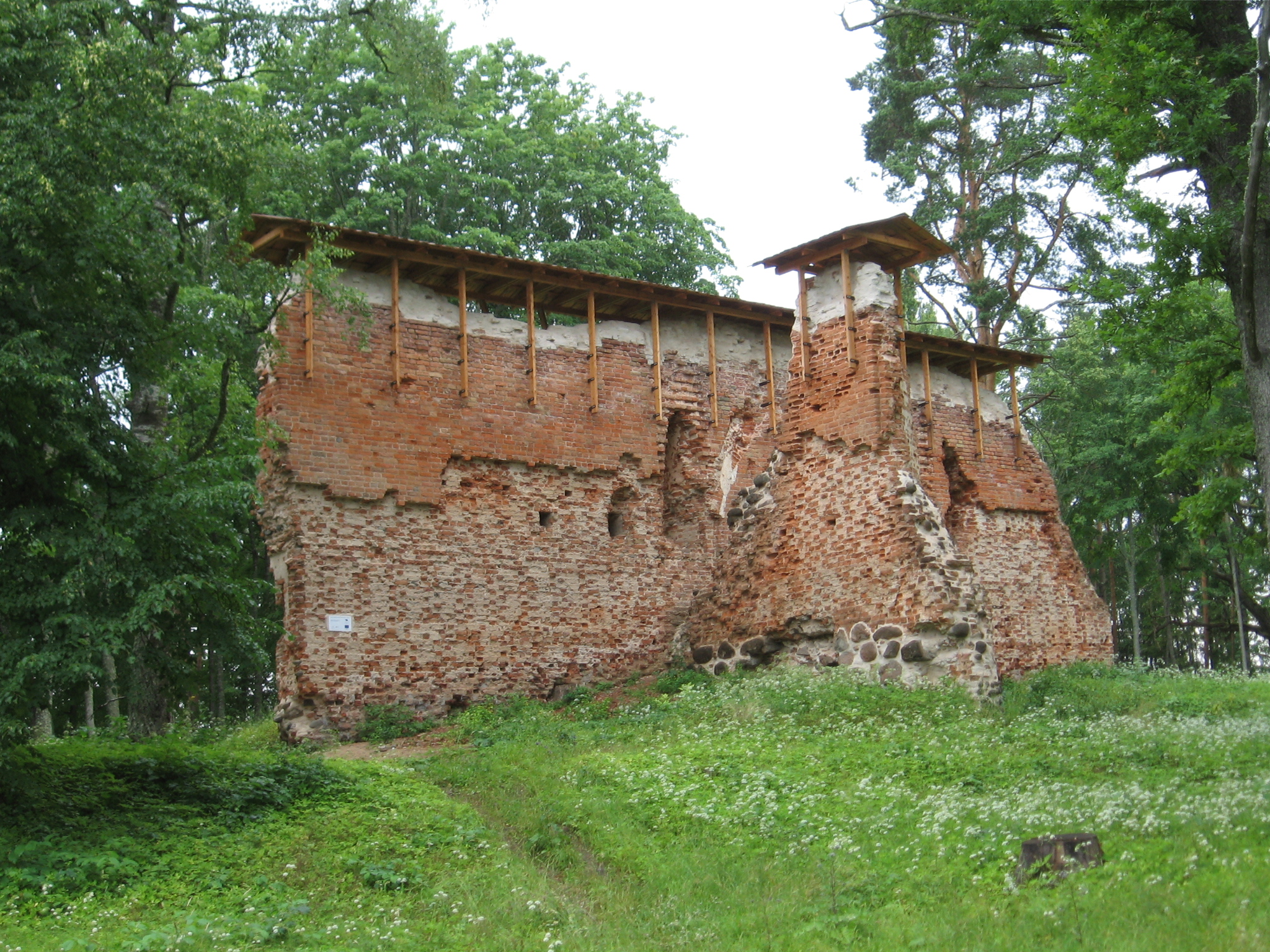 Rõngu vassal stronghold